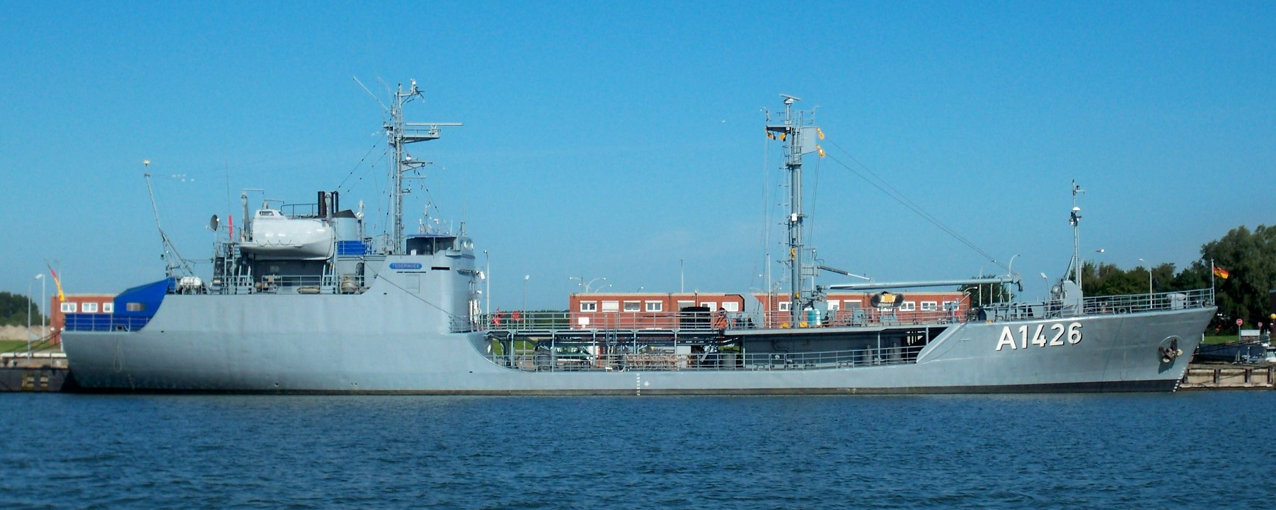 German Navy support tanker Tegernsee berthed at Naval Base Wilhelmshaven